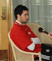 David Edgar being interviewed for CBC Radio